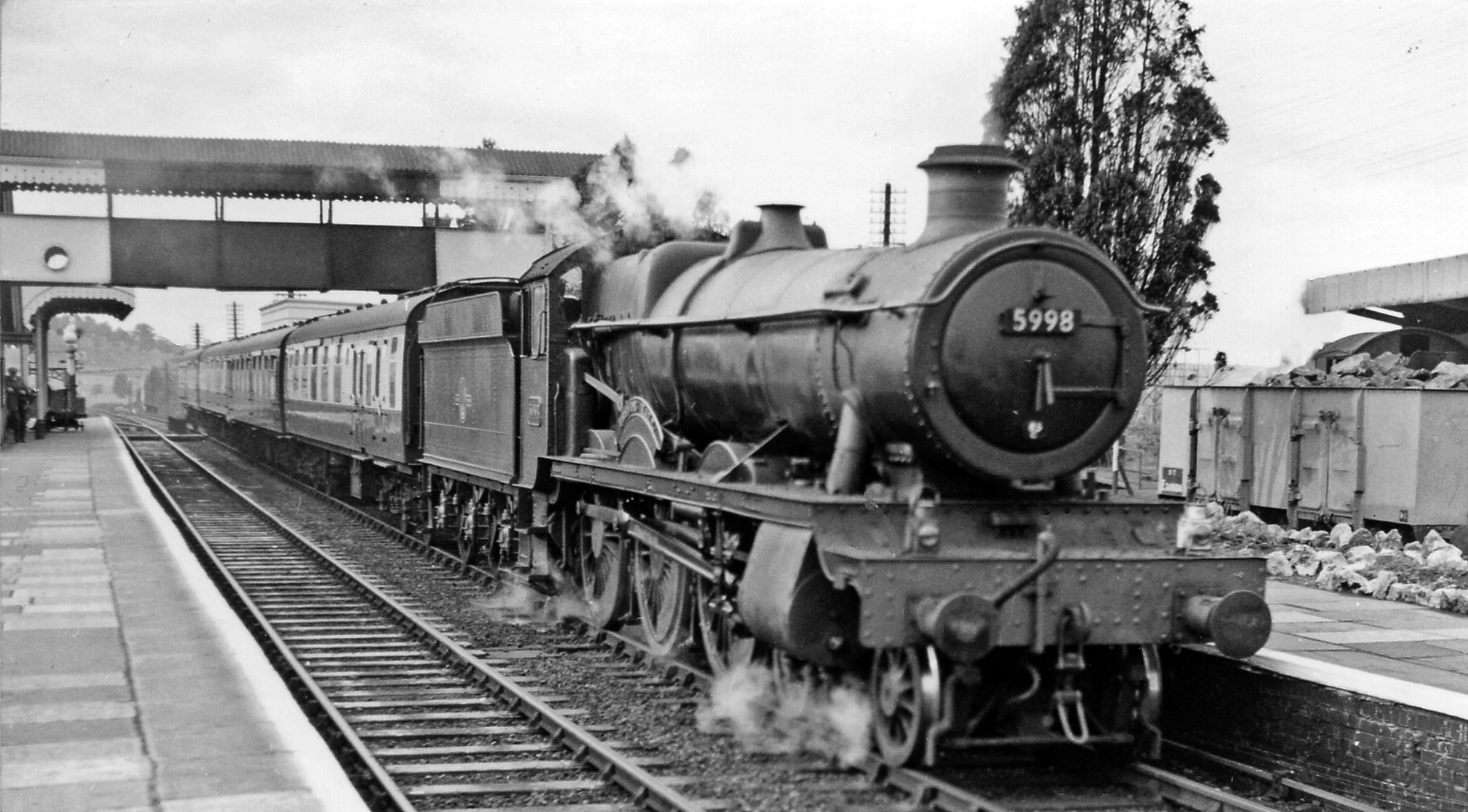 Hereford to Paddington express at Ledbury. View westward, towards Hereford; ex-GWR London/Birmingham - Worcester - Hereford main line, junction (left at end of Down platform) of branch to Gloucester (closed 13/7/59). On the right is the small Shed for engines employed to bank trains through the tunnels to/from Malvern. The 11.45 express from Hereford is headed by 4-6-0 No. 5998 'Trevor Hall'; running via Great Malvern, Worcester and Oxford, it is due at Paddington at 15.50.